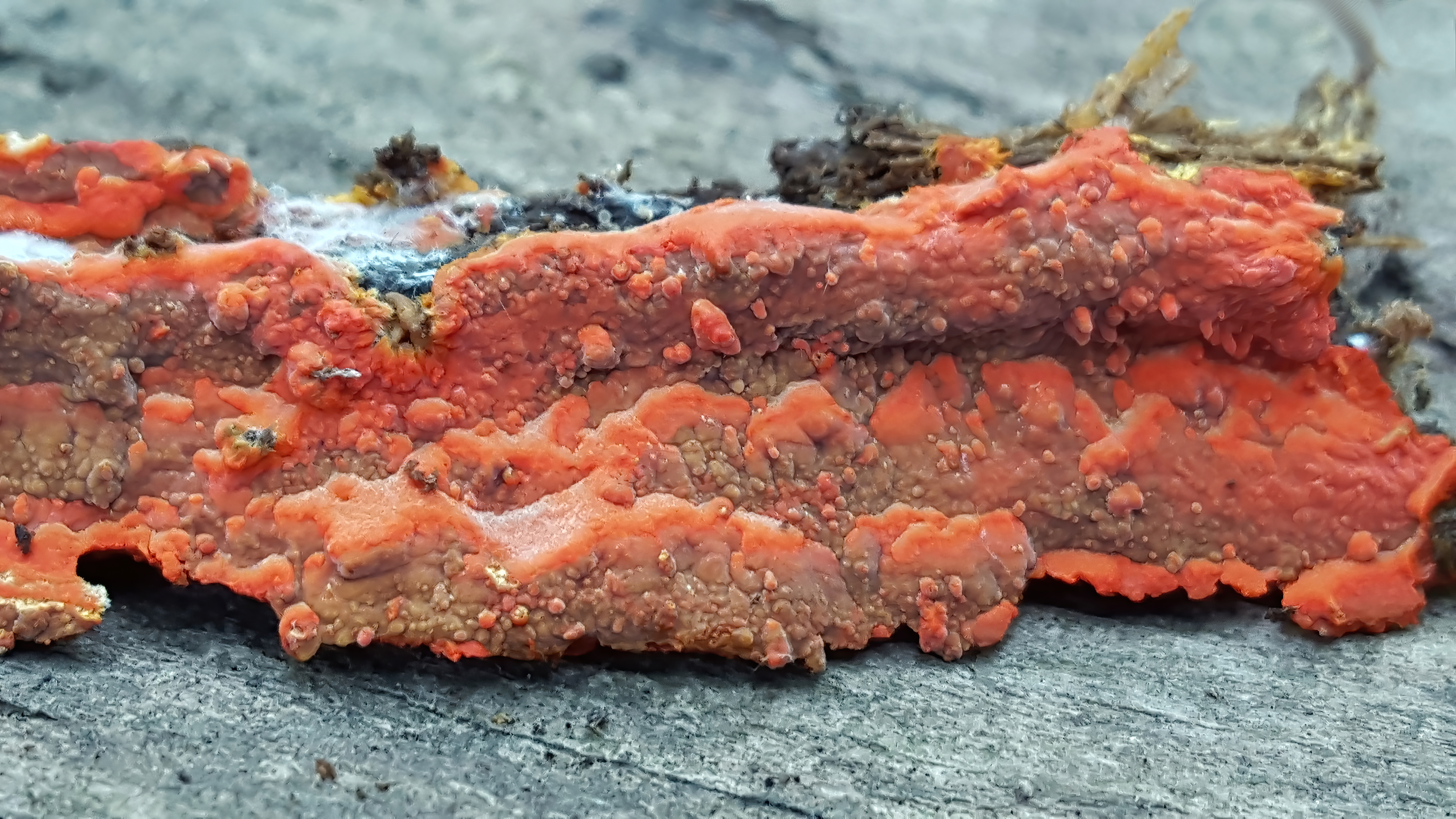 The crust fungus Phlebia coccineofulva Schwein.; photographed in Hartwood Acres Park, Allegheny Co., Pennsylvania, USA.